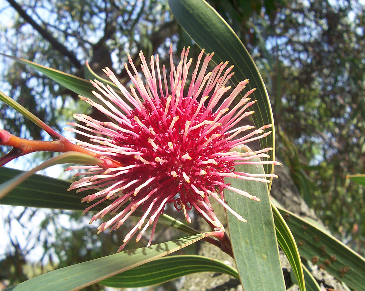 Pincushion Hakea (Hakea laurina)